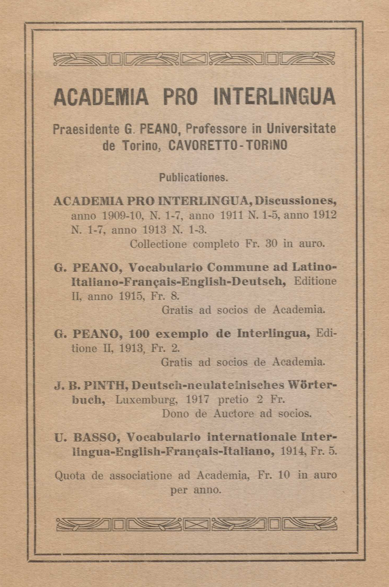 Explanations about Academia pro Interlingua in Wilfried Möser, Interlingua in forma de Semilatin, 1921